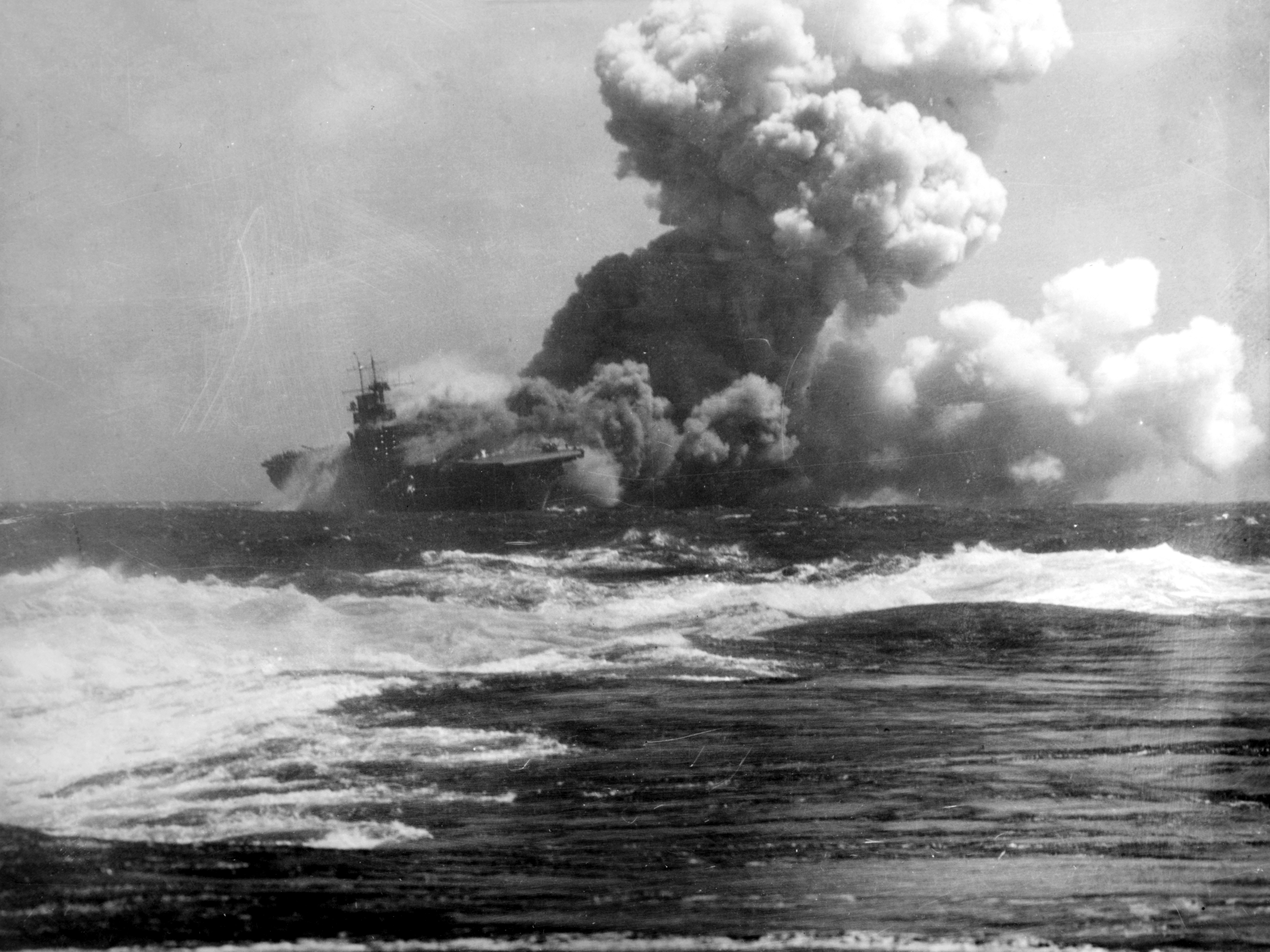 The U.S. Navy aircraft carrier USS Wasp (CV-7), listing and with smoke pouring from oil and gasoline fires caused by three torpedo hits in the starboard side from the Japanese submarine I-19. Her list has been corrected to 4 degrees by transferring oil and her head has been brought round so that the wind blows from the starboard side and drives the smoke off the ship and away from the control areas on the island. All damage control efforts, however, were in vain and she was sunk 400 km north-west of Espiritu Santo.